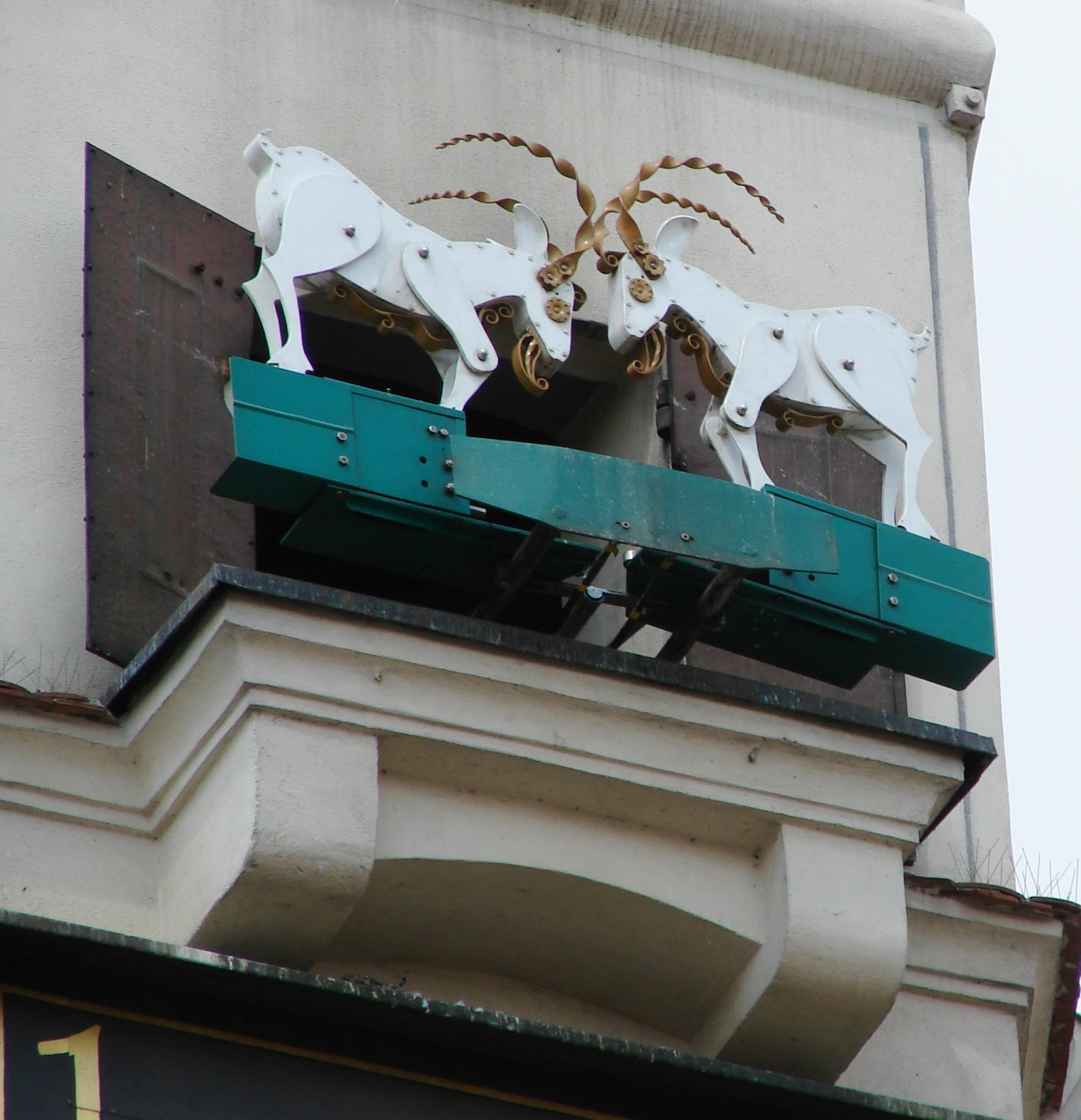 Goats on City Hall in Poznań